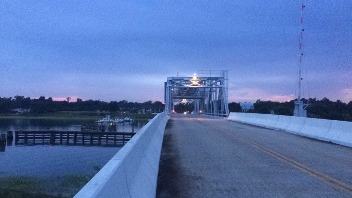 Guarded, private bridge to the island